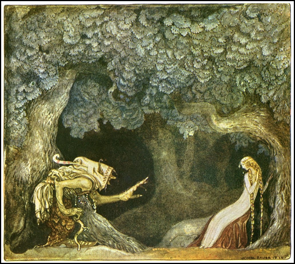 Illustration for "Drottningens halsband" (The queens necklace) by Anna Wahlenberg in "Bland tomtar och troll" (Among gnomes and trolls), 1914.